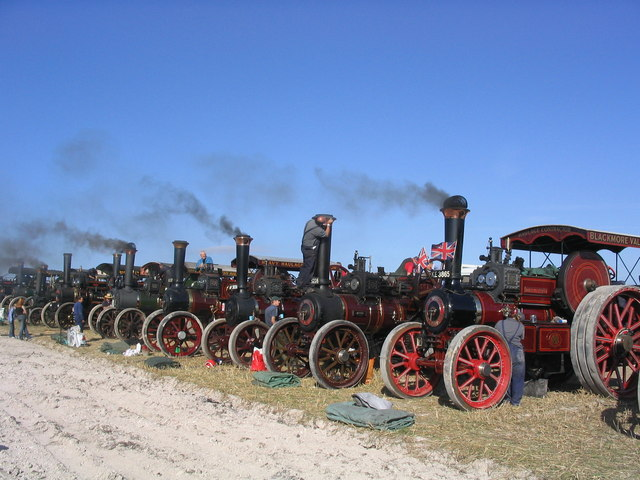 Steam Up. Location of the largest gathering of steam traction in Europe, 'The Great Dorset Steam Fair'